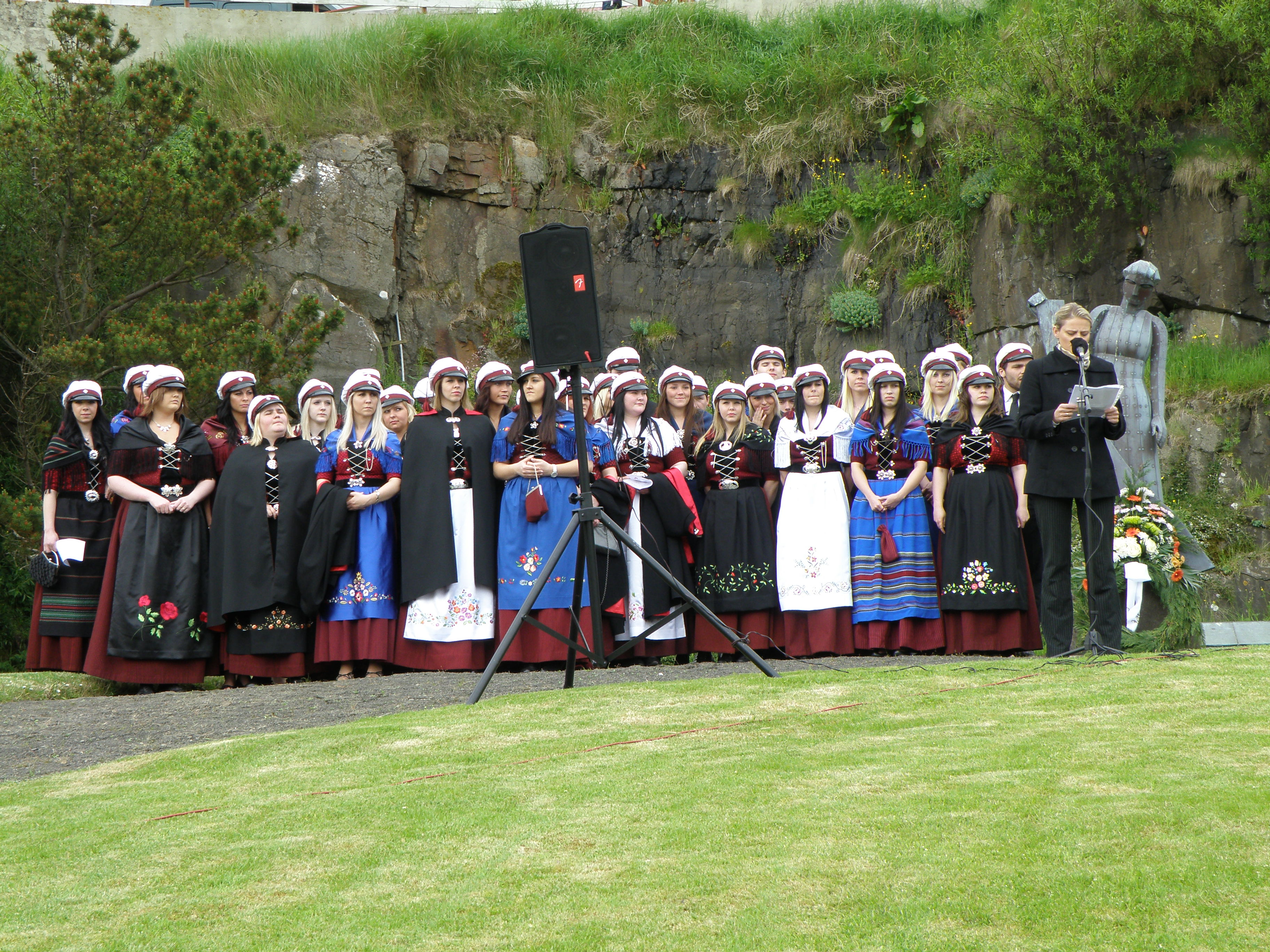 Faroese students wearing the national Faroese costume are gathered in Memorial Park in Vágur, Faroe Islands. Annika Olsen, who at that time was minister for Internal Affairs of the Faroe Islands, gave a speech. Behind them is the Memorial Lost at Sea, which was made in order to honour the people from the village who lost their lives at sea. Most of the men have been working at sea as fishermen, and the North Atlantic Ocean is often quite rough, so some of these men have lost their lives at sea. Føroyskt: Føroyskir studentar úr Suðuroy eru her savnaðir við Minnisvarðan í Vági á Jóansøku 25. juni 2010 eftir at hava lokið prógv á Miðnámsskúlanum í Grønudali millum Porkeri og Hov. Studentarnir eru í føroyskum búna. Annika Olsen, sum tá var landsstýriskvinna í innlendismálum, helt røðu fyri teimum.